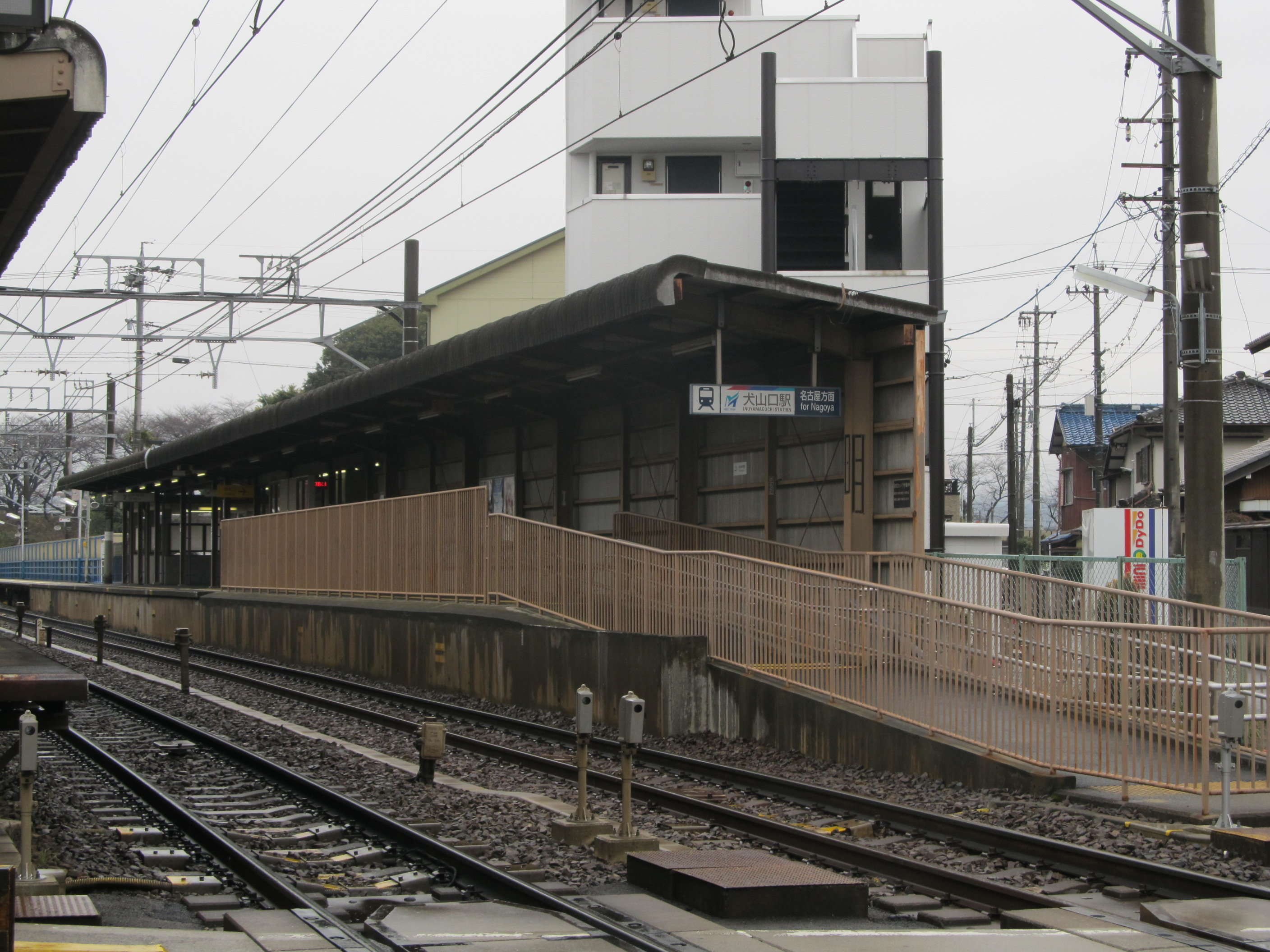 Nagoya Railroad Inuyama Line Inuyamaguchi Station Gate (for Nagoya)